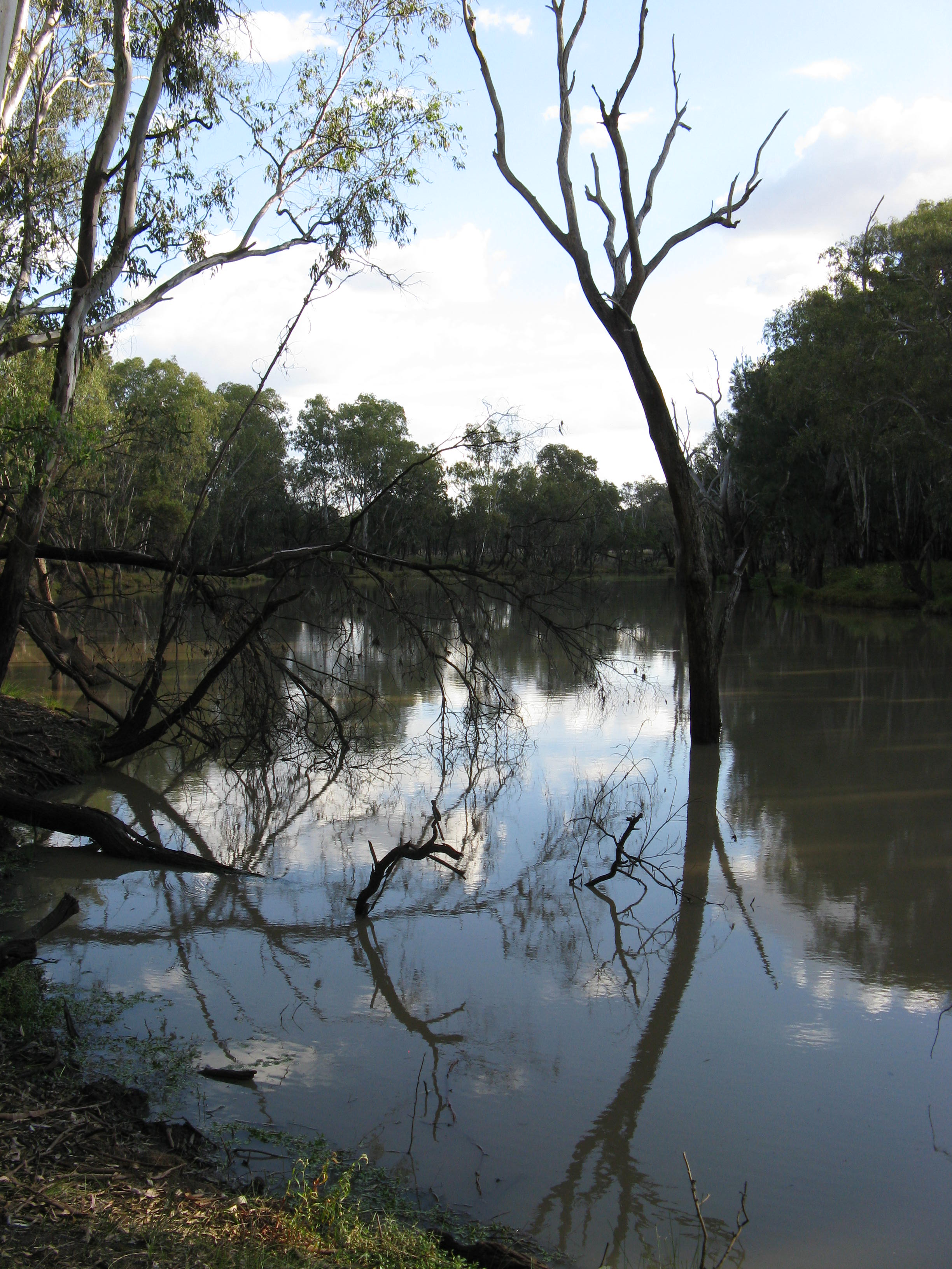 The Condamine River near Chinchilla in Queensland, taken March 2012